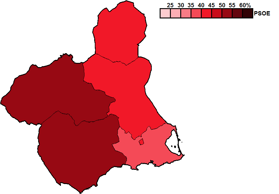 District results for the 1987 Murcian regional election.